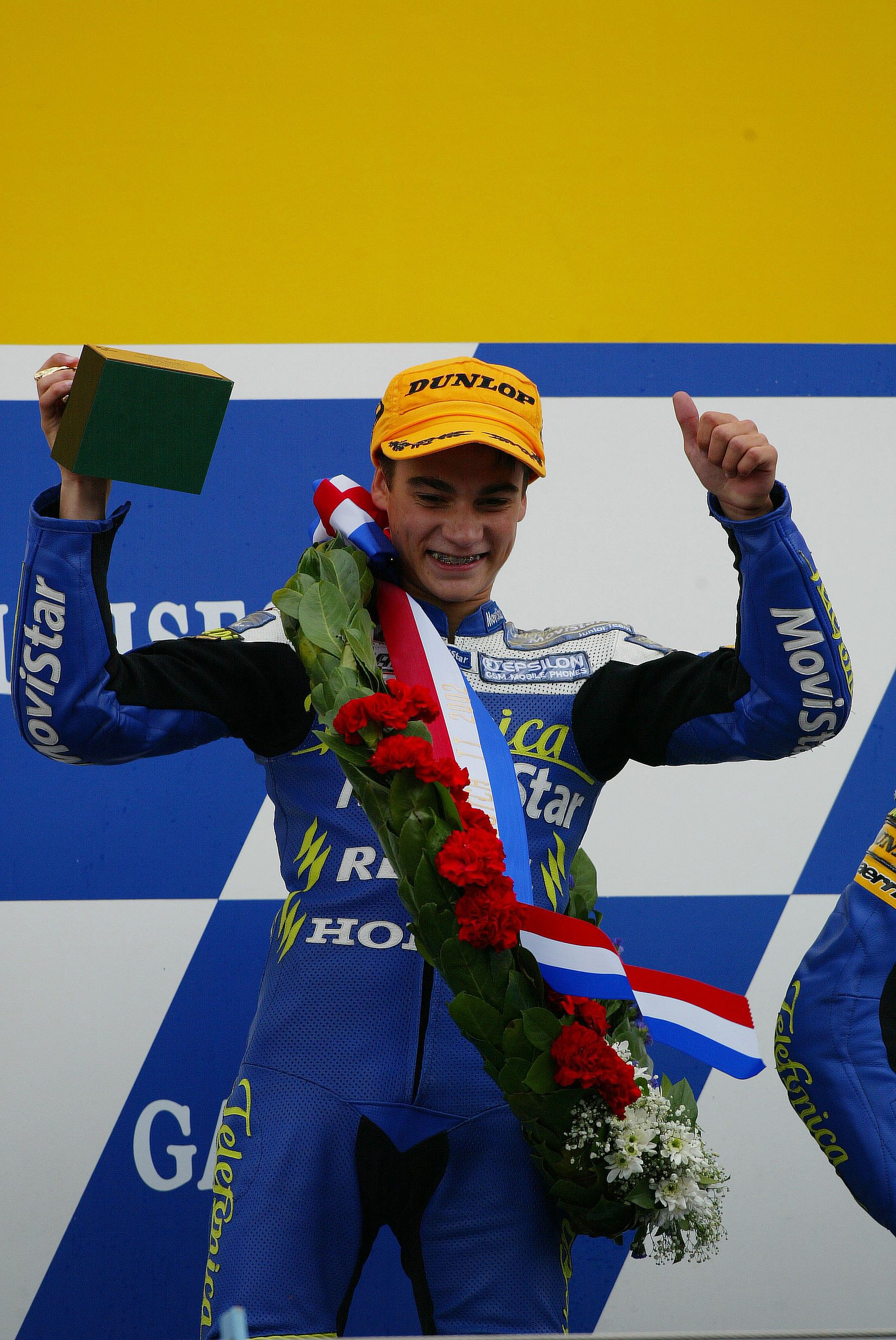 Dani Pedrosa, standing on the podium and celebrating his first ever win at the 2002 Dutch TT in Assen.